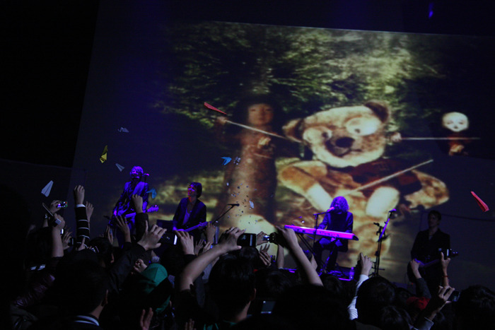 Mew Live In South Korea at Uniqlo-Ax, Seoul Nov 13, 2010 taken by Hyunji Choi(aka shin2chi)